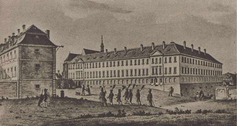 Vincenc Morstadt: Svatováclavská trestnice 1836 (repro Moravský illustrovaný zpravodaj 1932)